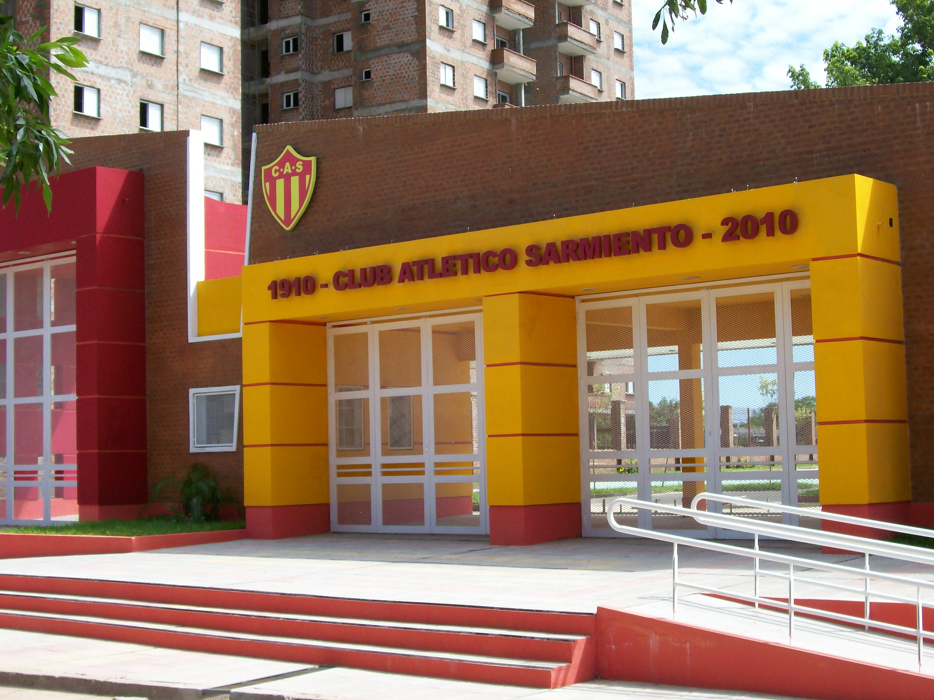 New facade of Club Atlético Sarmiento, in Resistencia, Chaco, Argentina. It commemorates 100 years of the club, that will be in 2010.